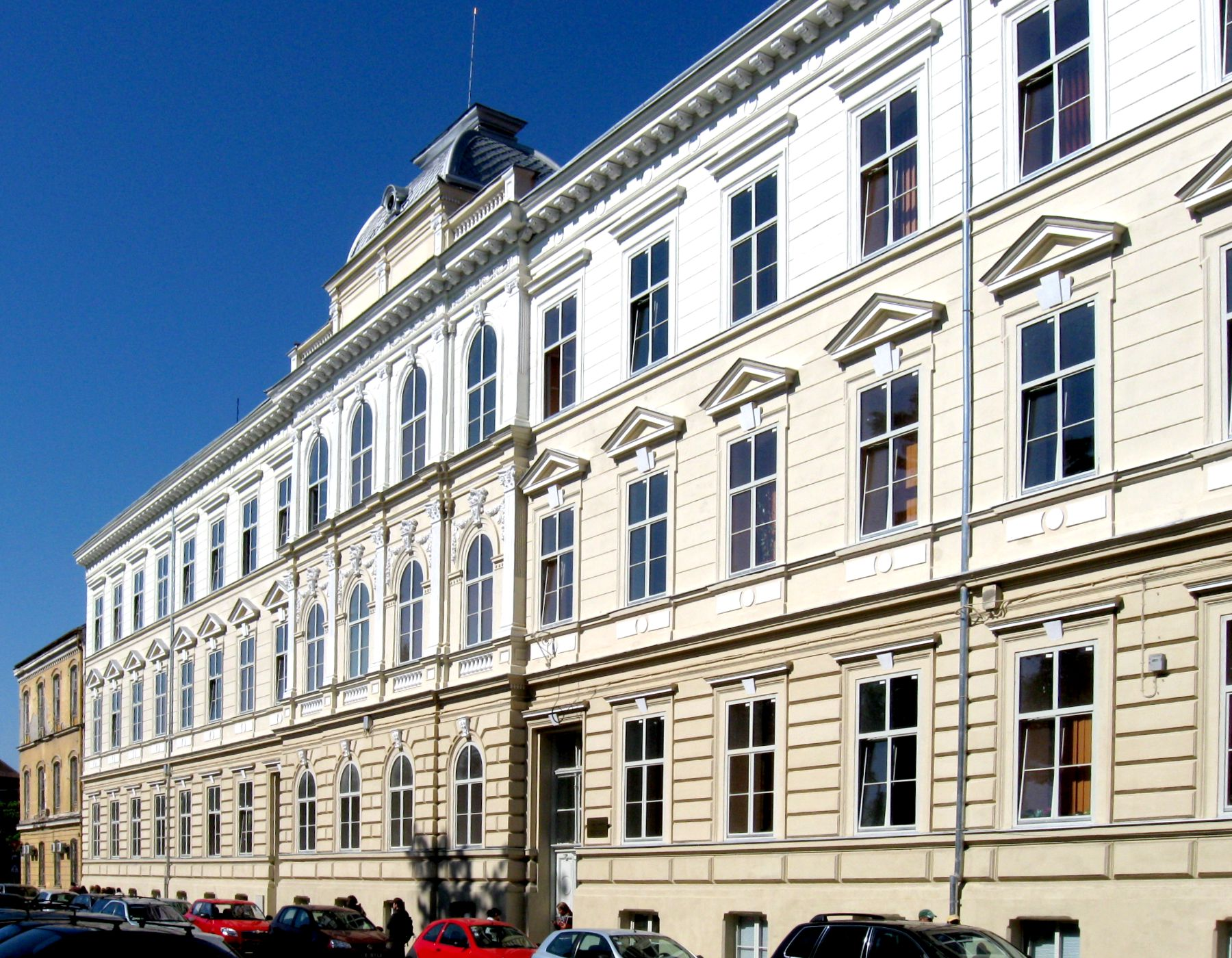 Faculty of Industrial Chemistry and Environmental Engineering of the "Politehnica" University of Timisoara (Telbisz Str.), Romania.